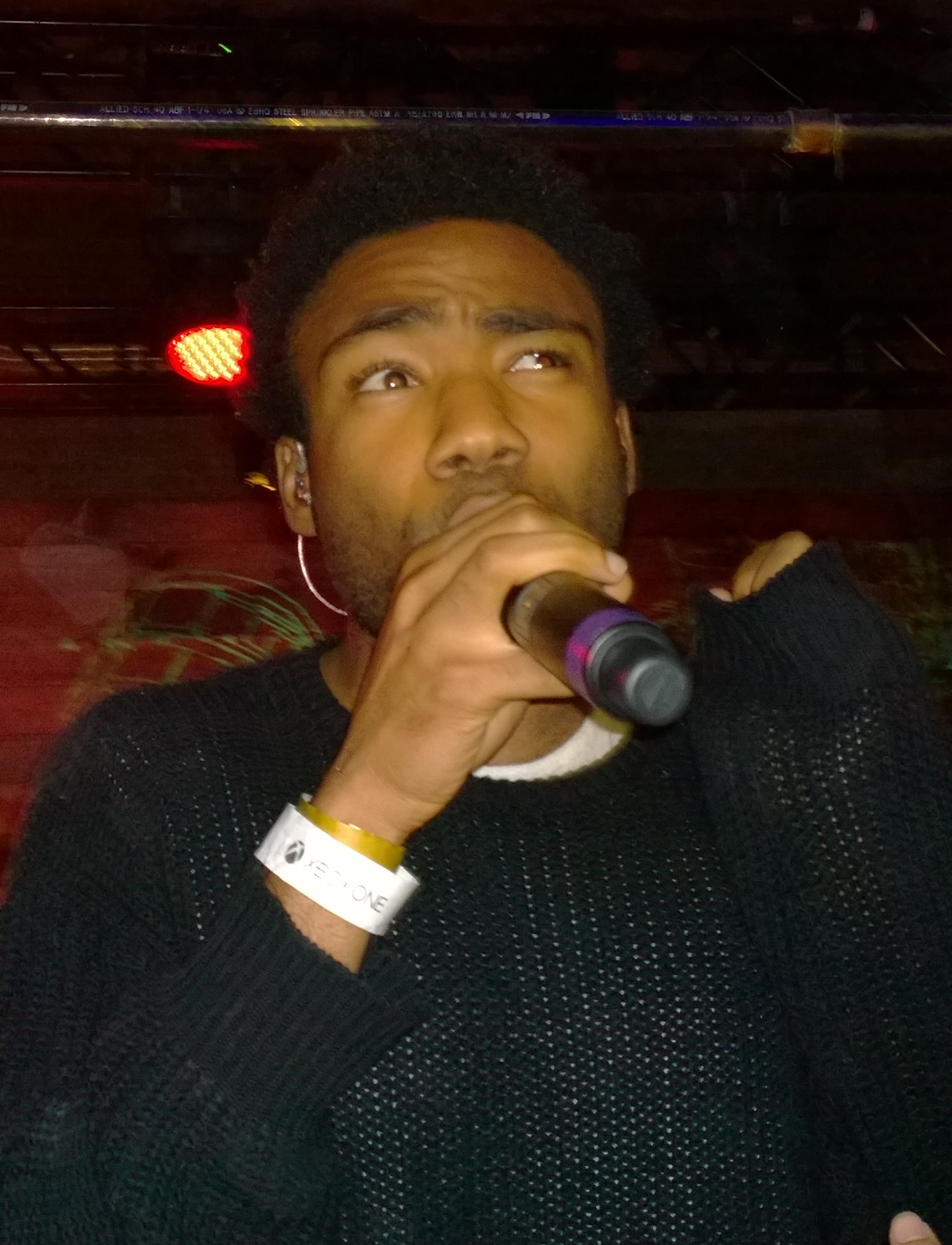 Donald Glover performing under the stage name Childish Gambino at South by Southwest in 2014